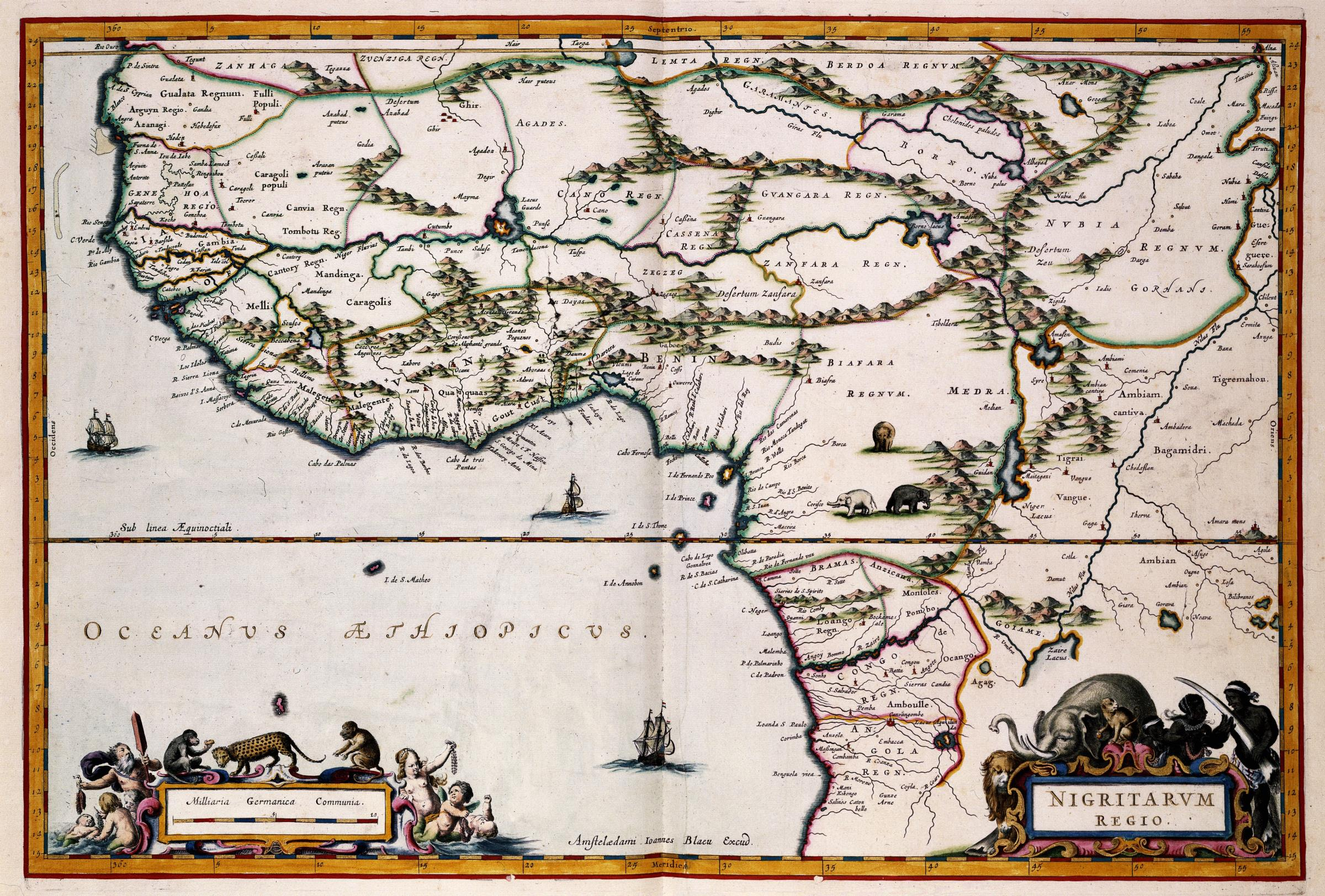 Map of the west coast of Africa. Nigritarvm Regio. Joan Blaeu (1598-1673) included various detailed maps of African regions in the 'Atlas Maior'. However it is not known from which geographical sources Blaeu derived the information. Cf. Koninklijke Bibliotheek, The Hague, inv. nr. 185 B 11 part I, after p. 322.